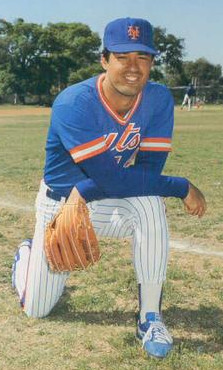 Professional baseball player Ron Darling